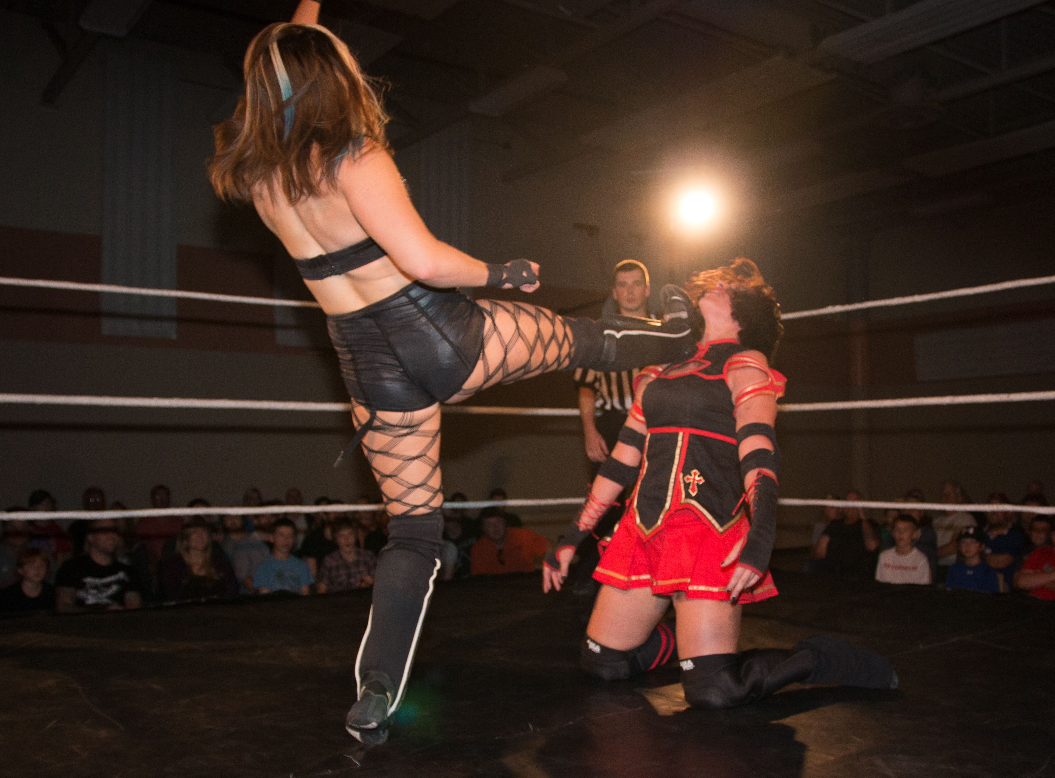 Allysin Kay hitting Courtney Rush with a boot at a charity show in Angus, ON